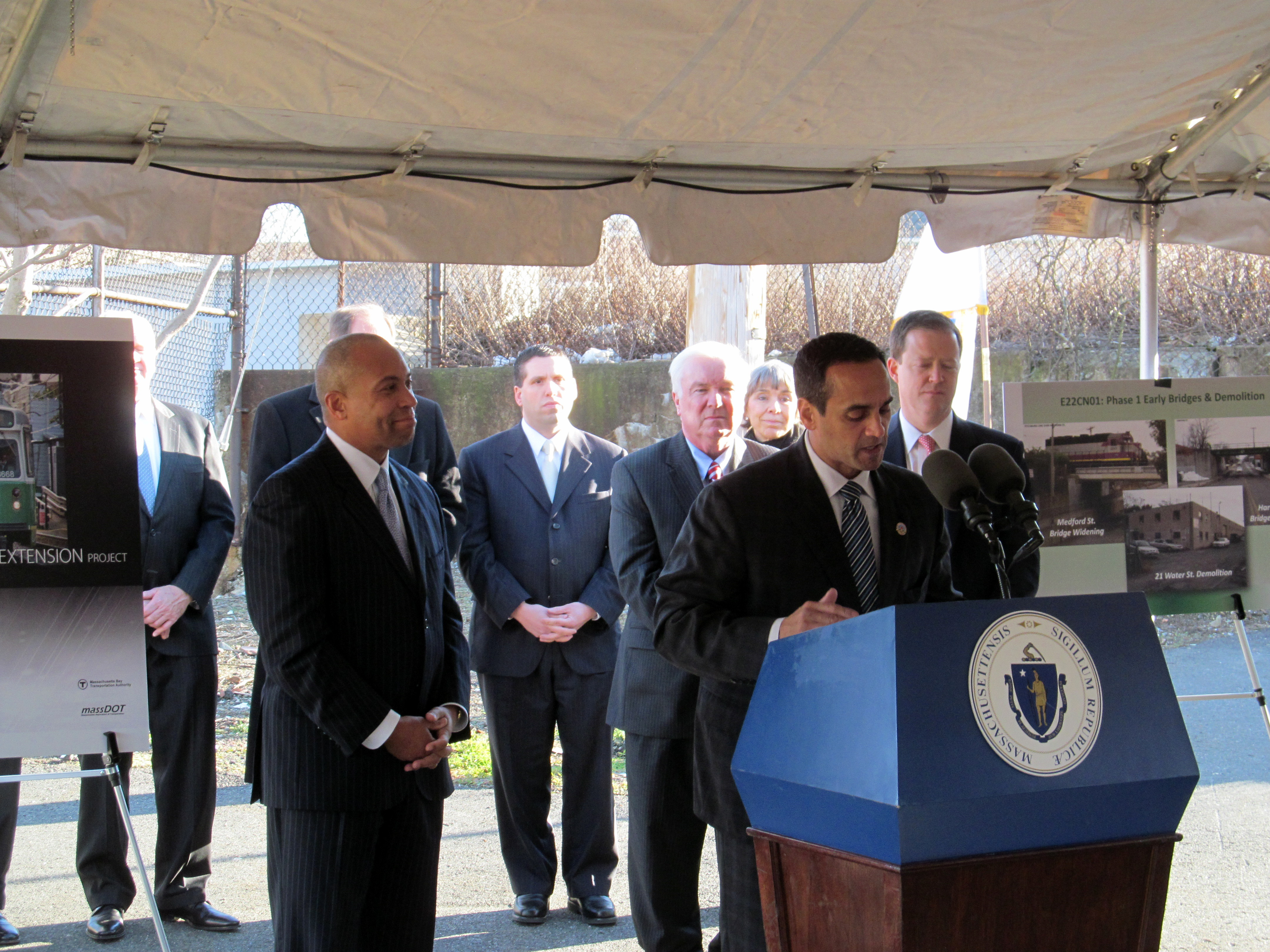 Somerville mayor Joseph A. Curtatone speaks at the Green Line Extension groundbreaking on December 11, 2012. From left to right: Unknown (behind sign), Massachusetts governor Deval Patrick, Representative Mike Capuano (behind Patrick), state senator Sal DiDomenico, Medford mayor Michael McGlynn, state representative Pat Jehlen, Somerville mayor Curtatone, and MassDOT secretary Richard Davey.